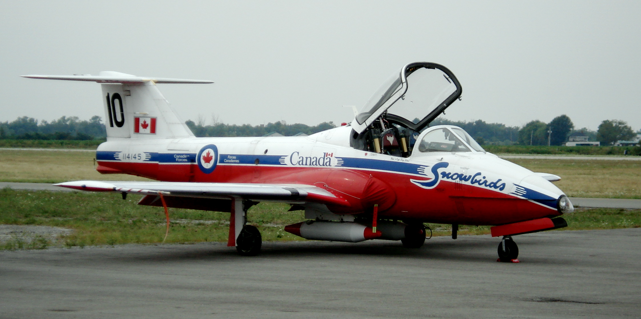 CT-114 Tutor (114145) of the Canadian Snowbirds aerobatics team. This example was photographed at an airshow held at St. Catharines Airport. Photo taken on August 26, 2006. Source: Photo by me, User:Balcer.